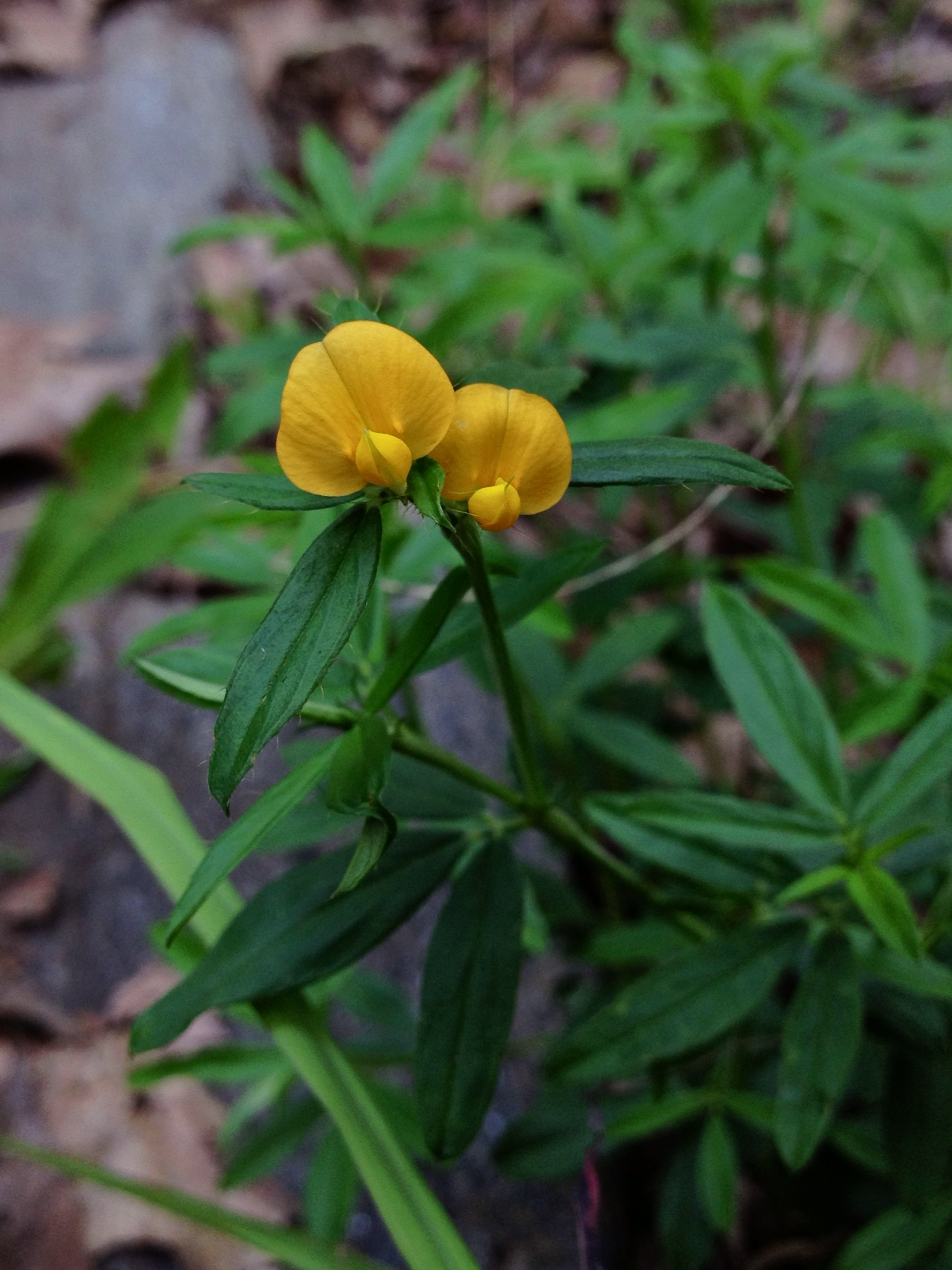 Photo of Stylosanthes biflora in flower. This is a native plant growing wild in Great Falls Park, in Fairfax county Virginia, USA. This species is a member of the Fabaceae family.